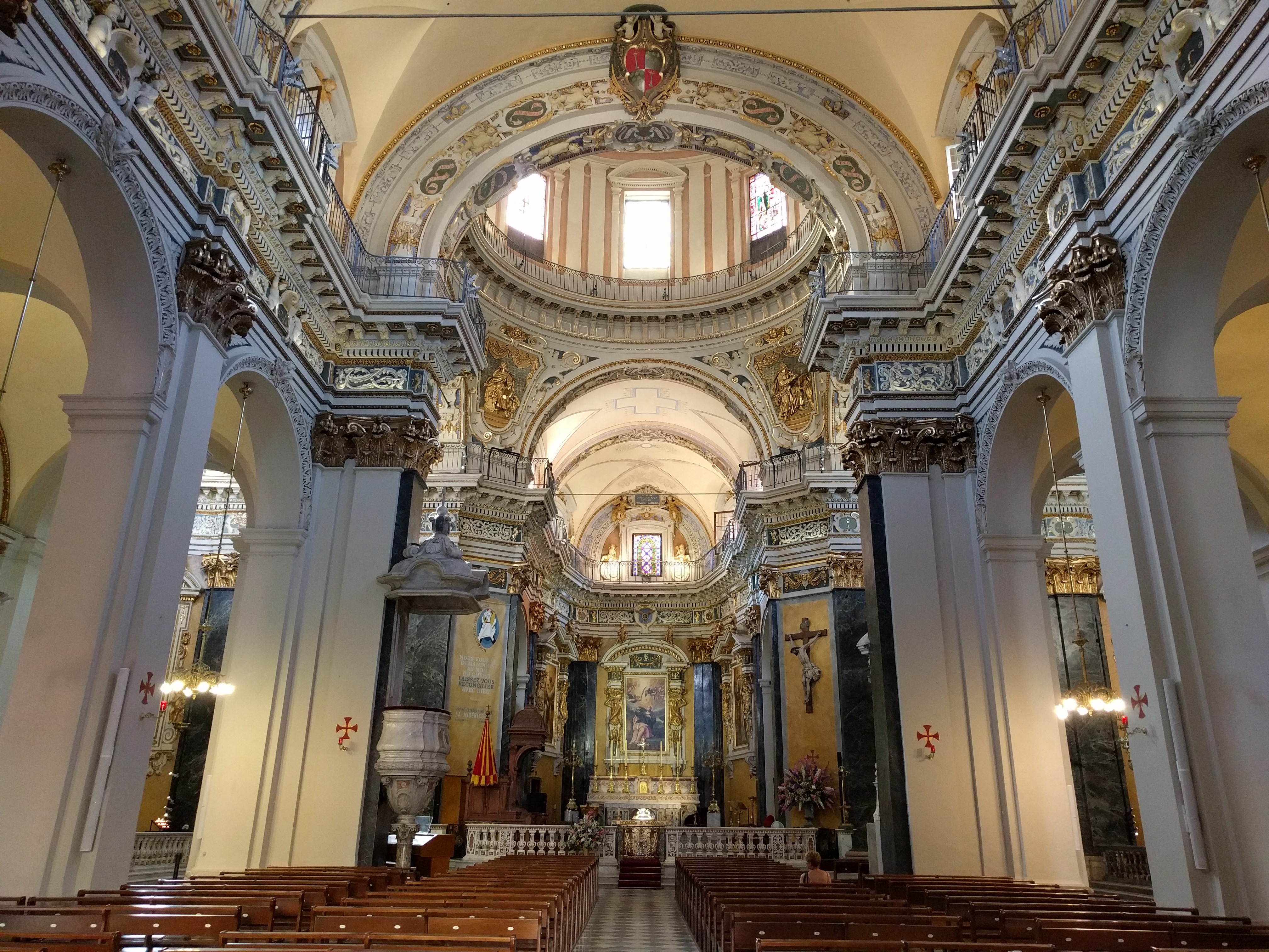 Interior of Cathédrale Sainte-Réparate de Nice.